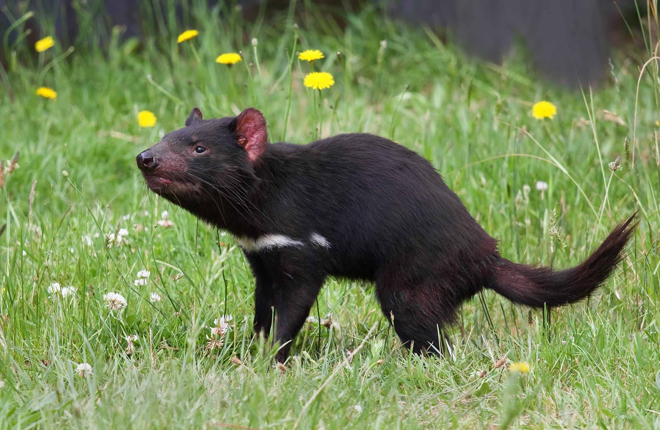 Tasmanian Devil (Sarcophilus harrisii), Tasmanian Devil Conservation Park, Taranna, Tasmania, Australia